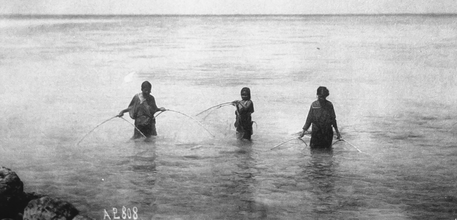 South Sea cruise 1899-1900, Caroline Chain, Truk Lagoon, native women fishing with hand and nets near Moen Island. Note that this image is cropped and tones rebalanced.